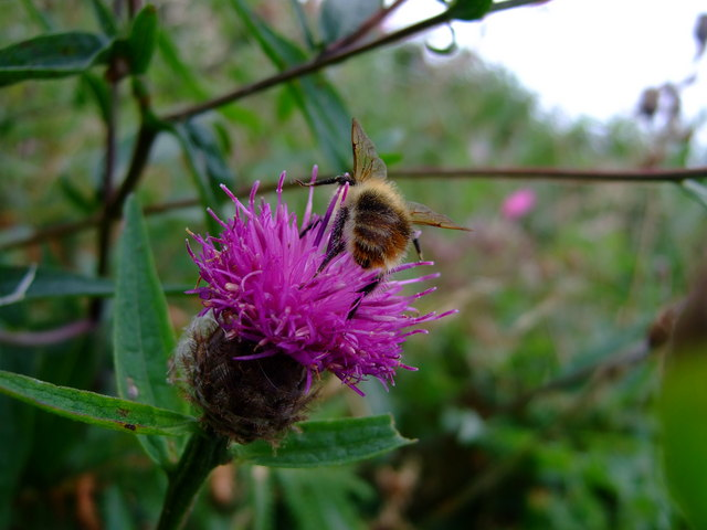 Bee on knapweed (Centaurea nigra) At the end of the summer insects take advantage of the remaining blossoms of which the purple tufts of knapweed or hardhead are one of the most prolific. Geoffrey Grigson records dozens of popular names for this flower, mostly relating to the knobbly heads with the brush-like topknots. The generic name, Centaurea, derives from the mythical centaur, Chiron, said have used the plant to heal wounds, which was its former medicinal function.